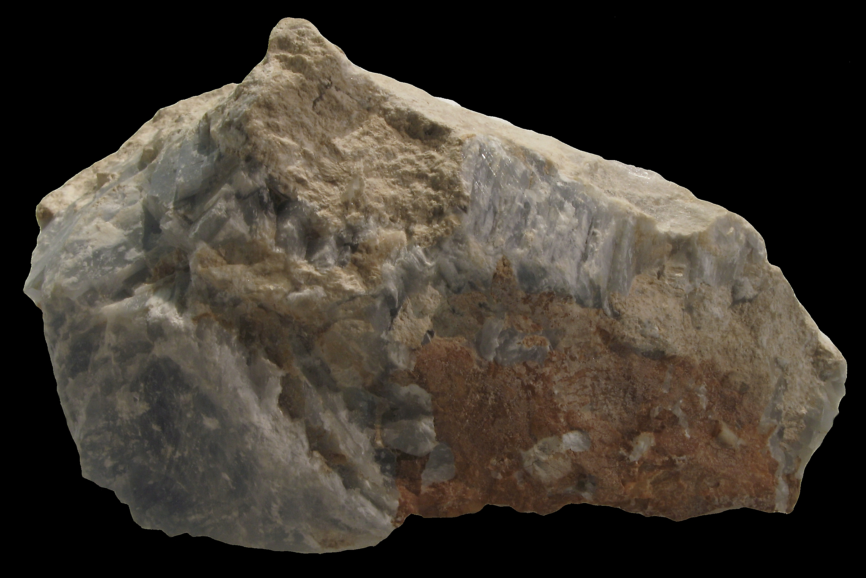 Åkermanite (yellowish brown), Calcite (blue), Hillebrandite (variety Foshagite, fibrous), Tilleyite (mallow colored) Locality: Crestmore, Riverside, California, USA Collection of Dr. Schilly, 1966 - Exposed in the Mineralogical Museum of University Bonn, Germany